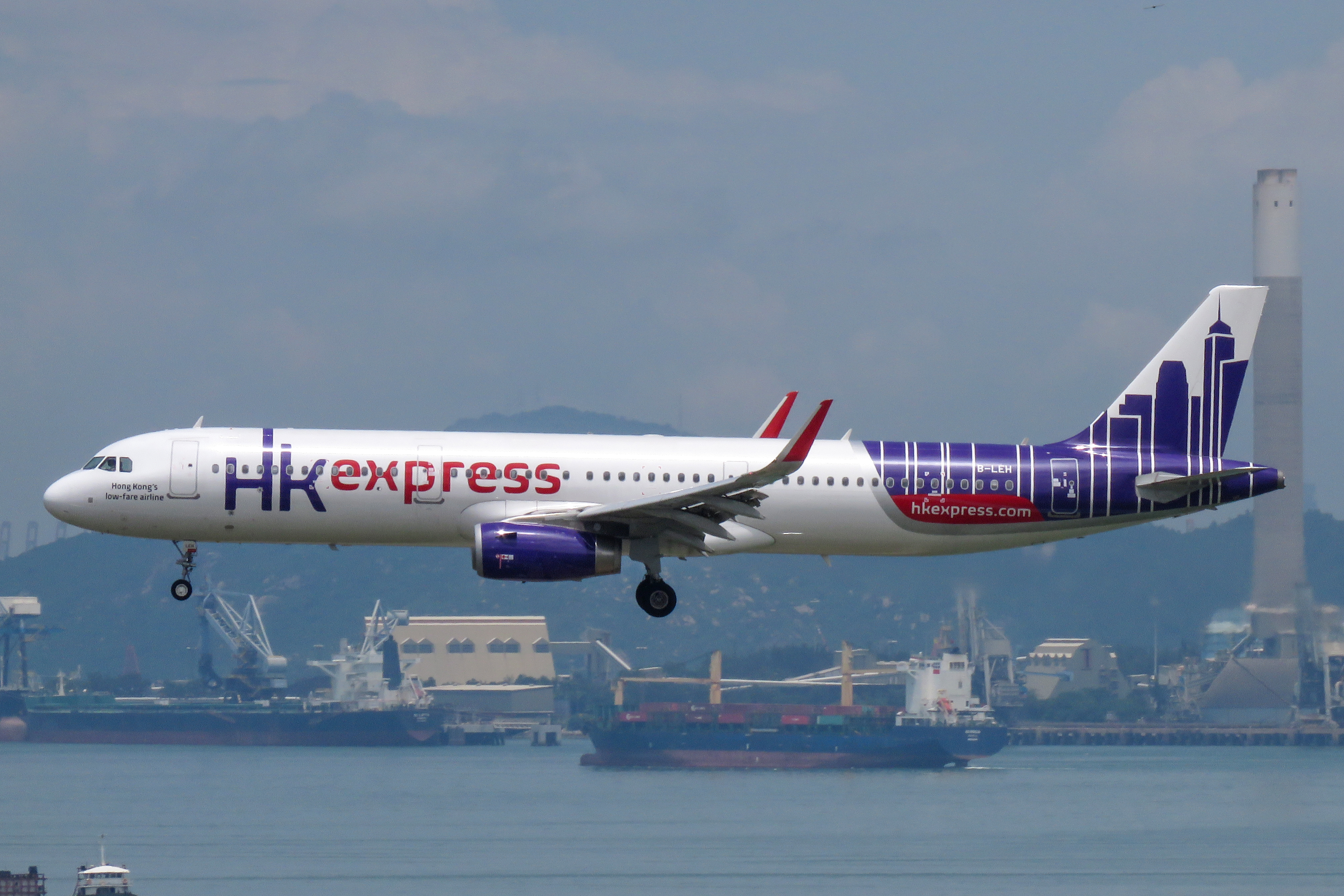 Hongkong Shuttle 227 from Ningbo.